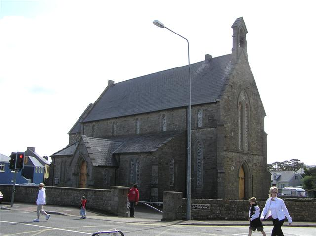 Church of Ireland, Bundoran It is located at the end of the main street